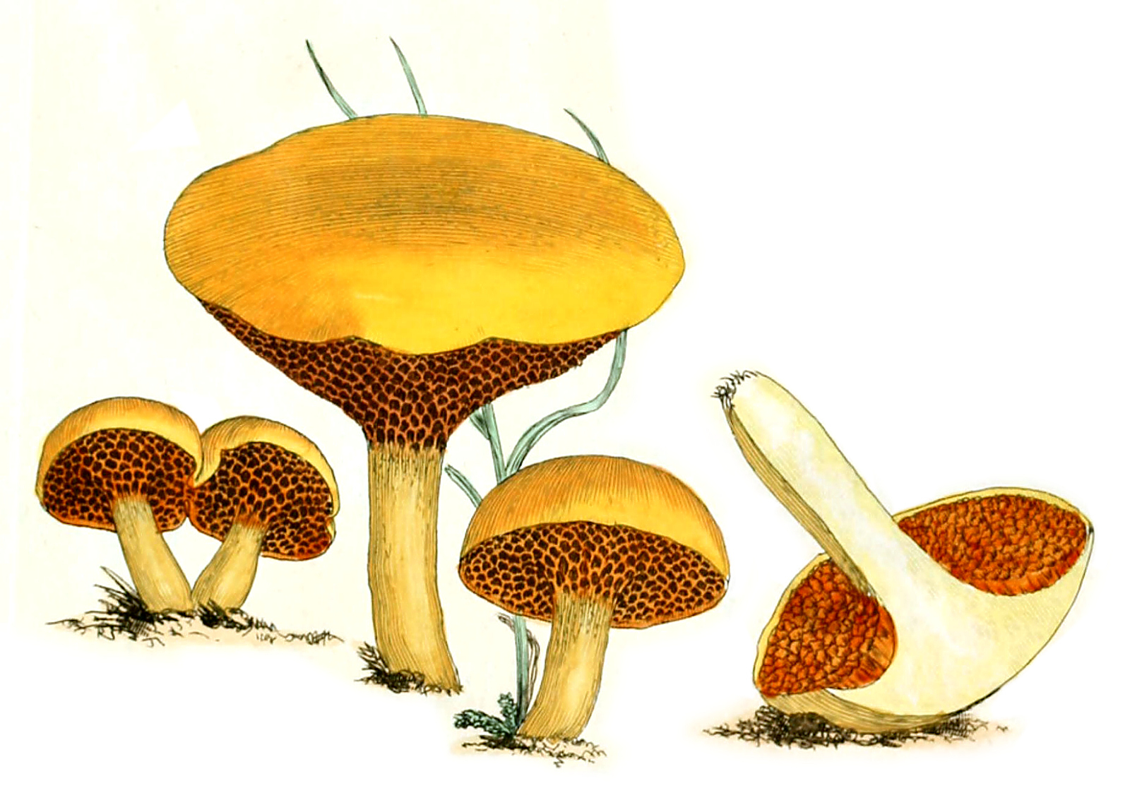 This is a plate from James Sowerby's Coloured Figures of English Fungi or Mushrooms.